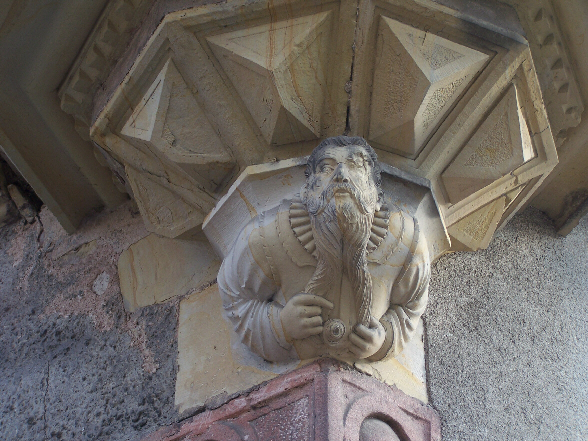 A sculpture at the front of the castle in Marksuhl.